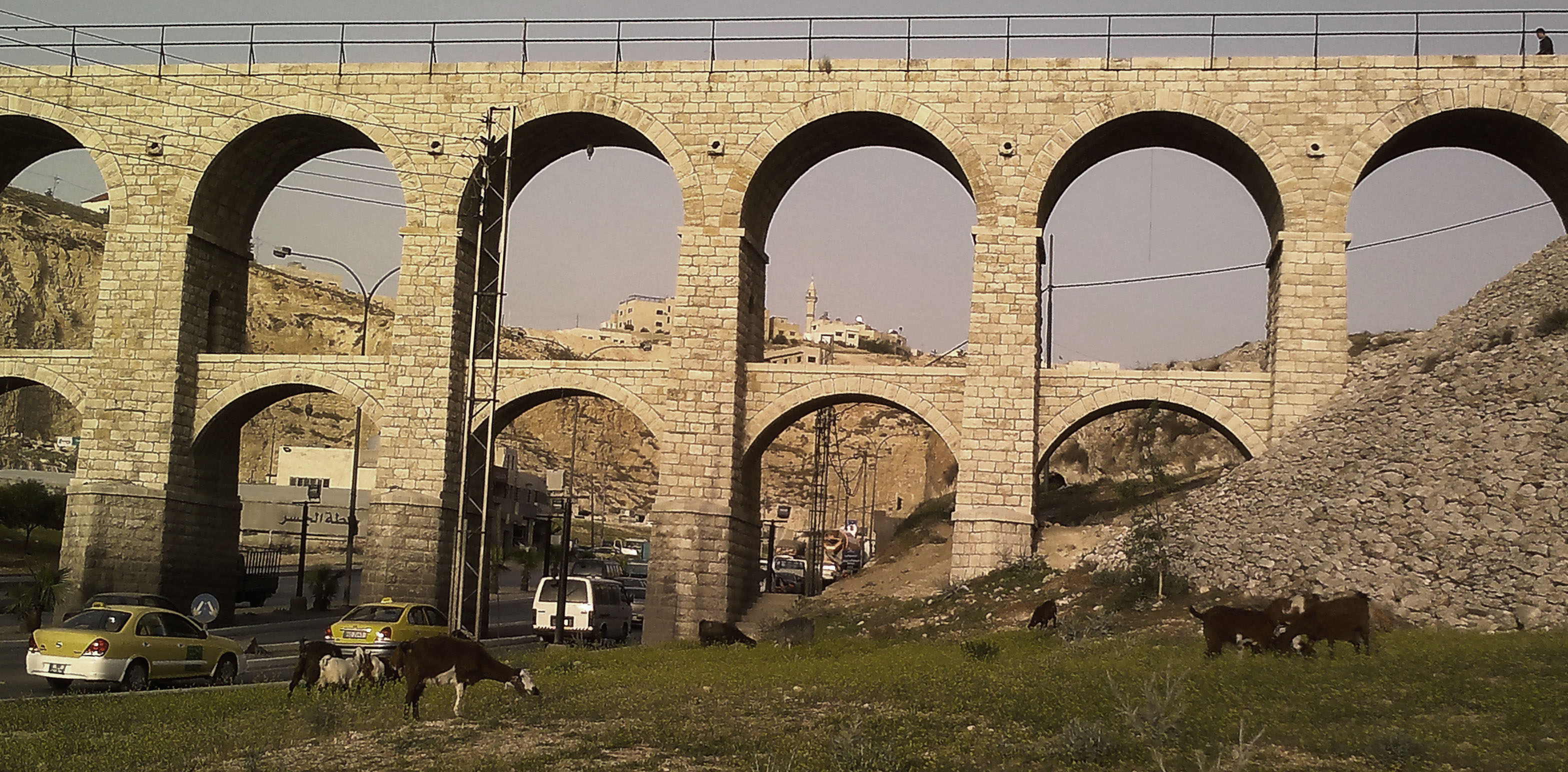 Ottoman Seven arches in Amman, Jordan